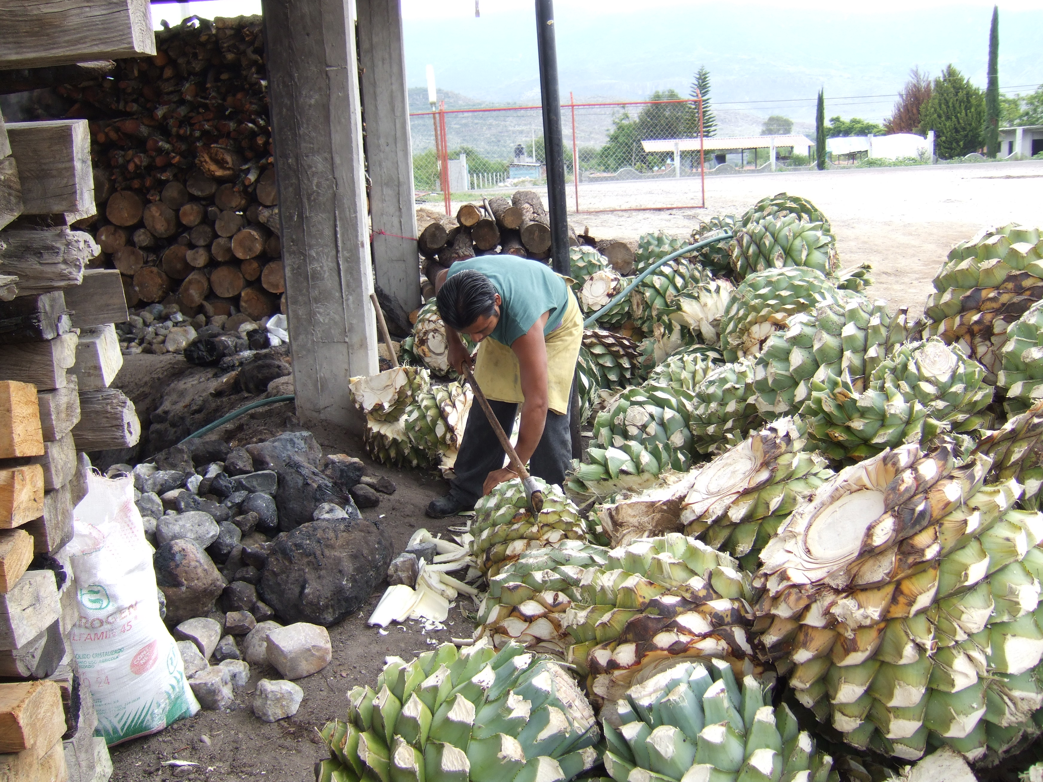 Coeurs d'agave pour la fabrication du mezcal